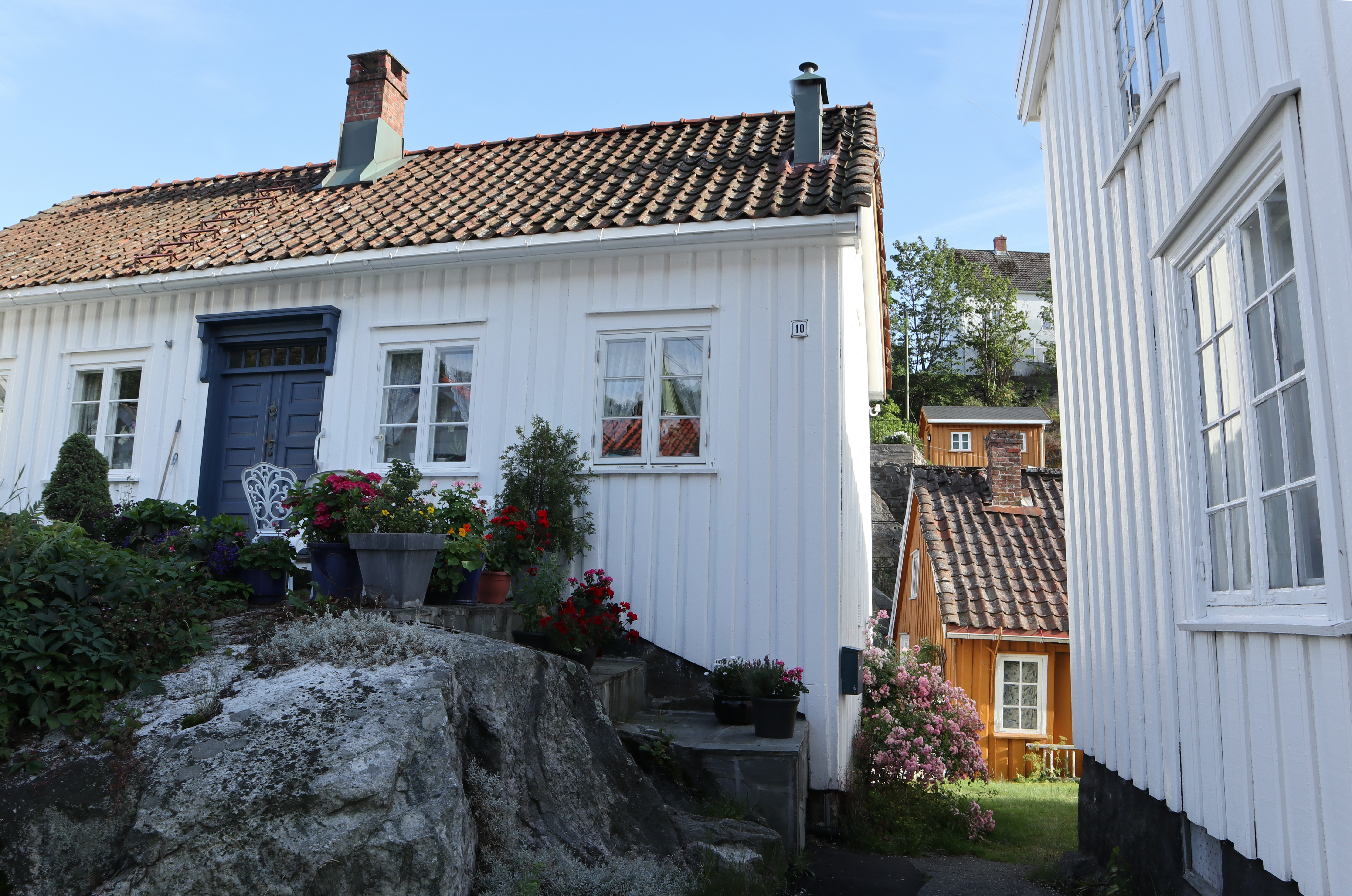 Risørflekken in Risør